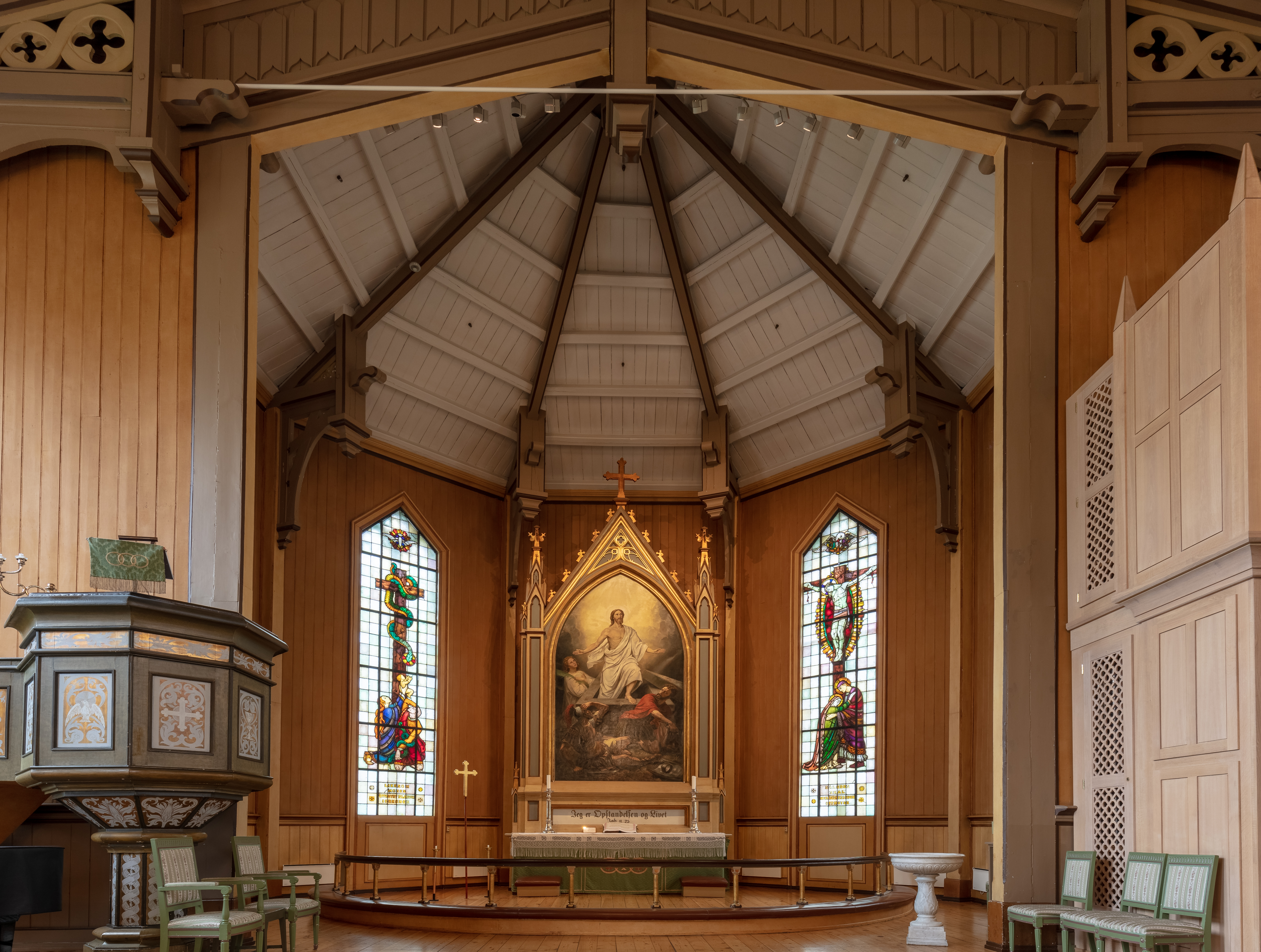 Cathedral, Tromsø, Norway